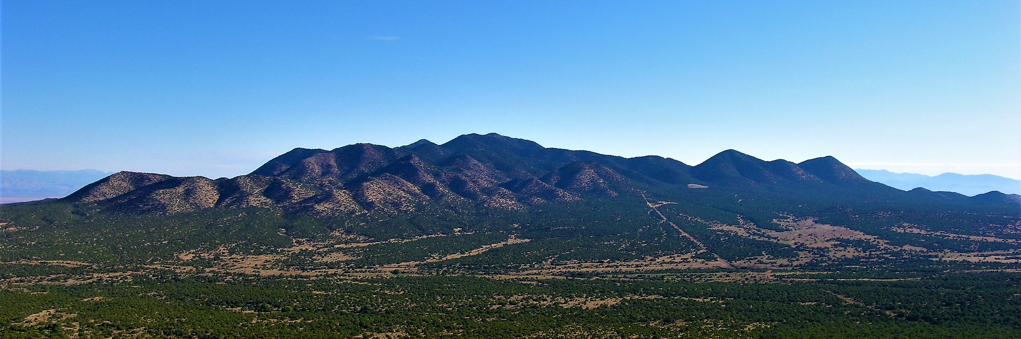 Ortiz Mountain in Santa Fe County, New Mexico as viewed from San Pedro Mountain.